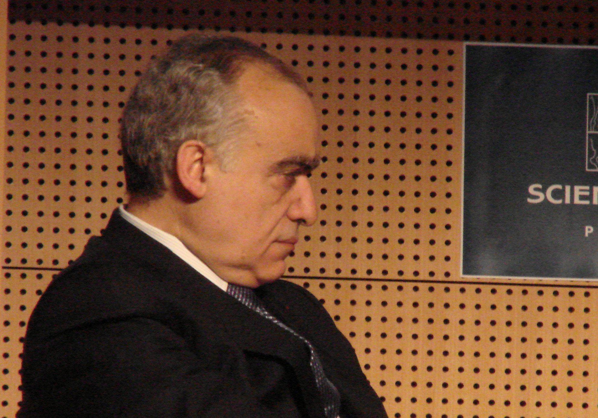 Ghassan Salamé, by me, 39/03/2007.